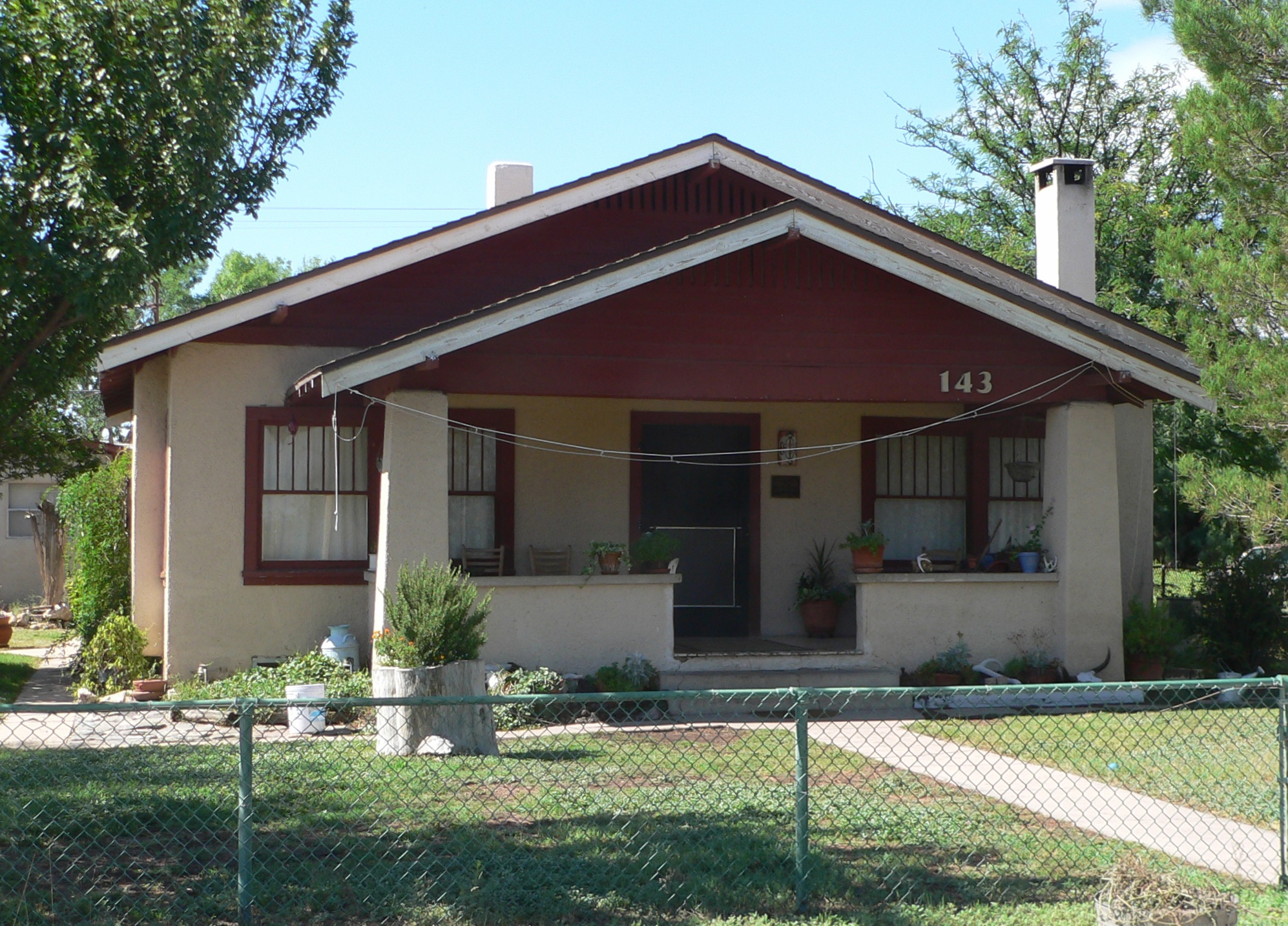 House at 143 W. 6th Street in Benson, Arizona. The house is part of the Apache Powder Historic Residential District, listed in the National Register of Historic Places.